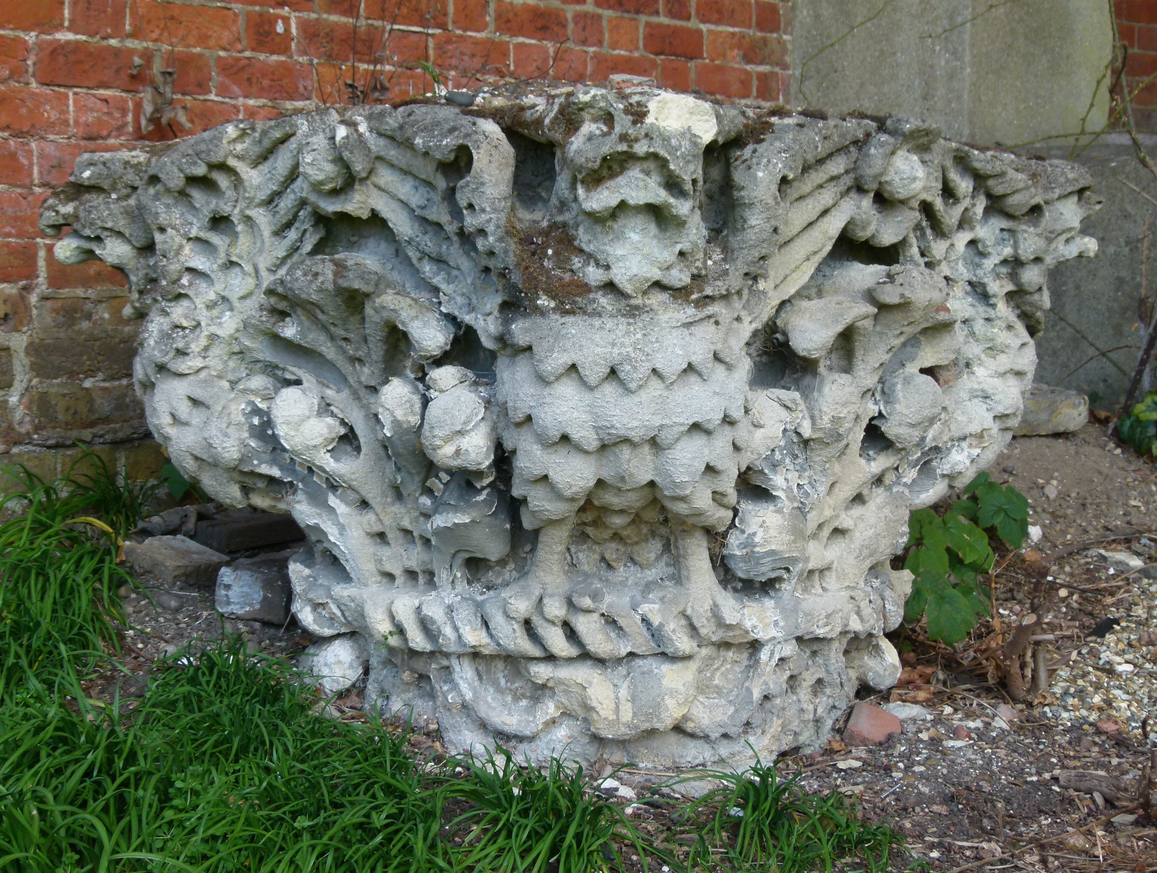 Capital of the ruined interior of the Royal Garrison Church of St George, Woolwich, south east London, UK.